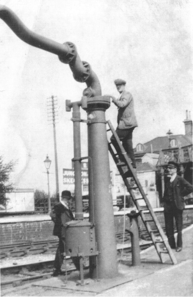 Arthur Elston, Stationary Engineman at Firsby Junction from 1927 to 1939, up the ladder, at Firsby, abt 1930